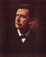 Governor of Alabama William James Samford (1844-1901)